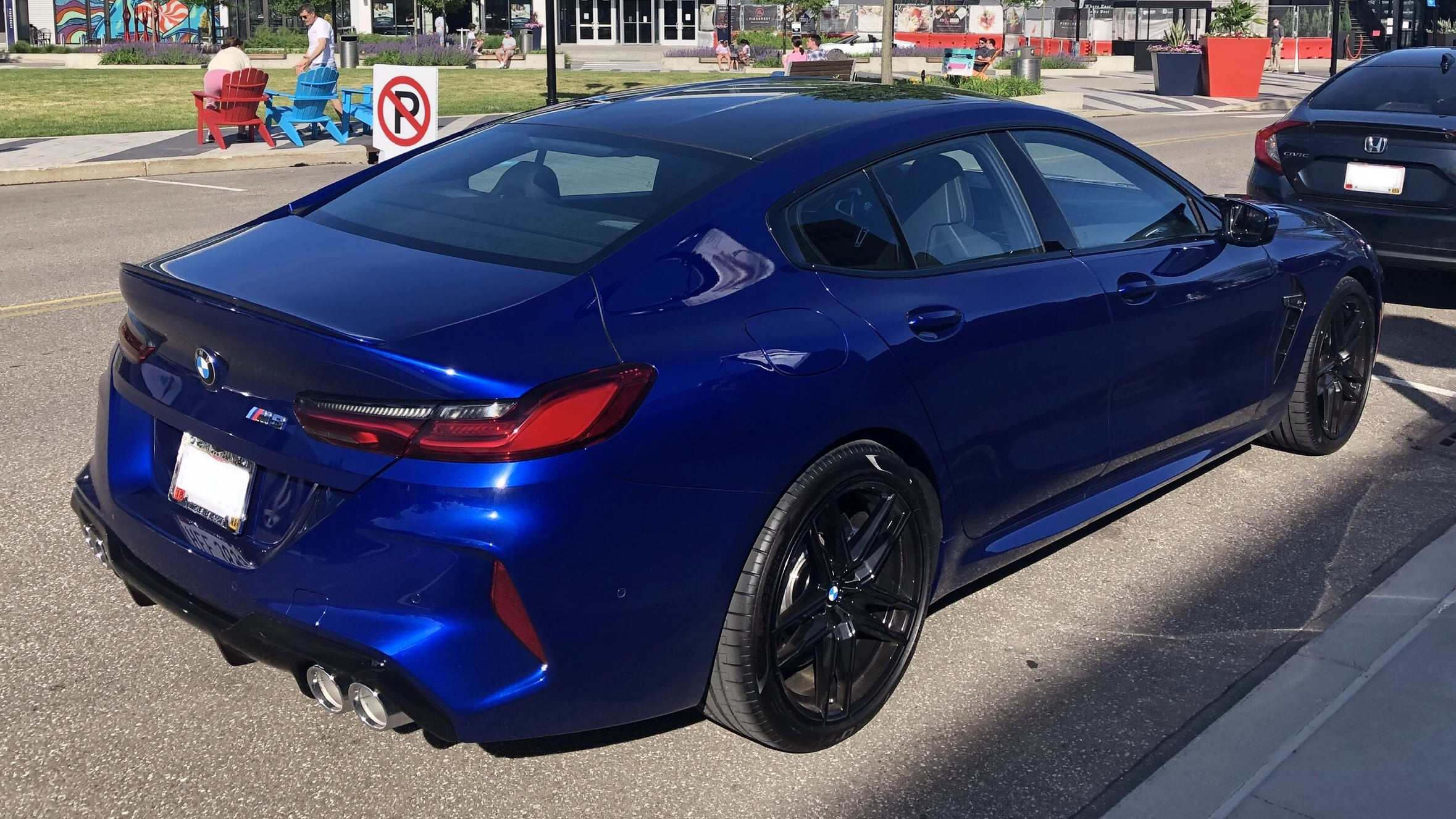 BMW M8 Gran Coupe in Marina Bay Blue metallic, 20” wheels